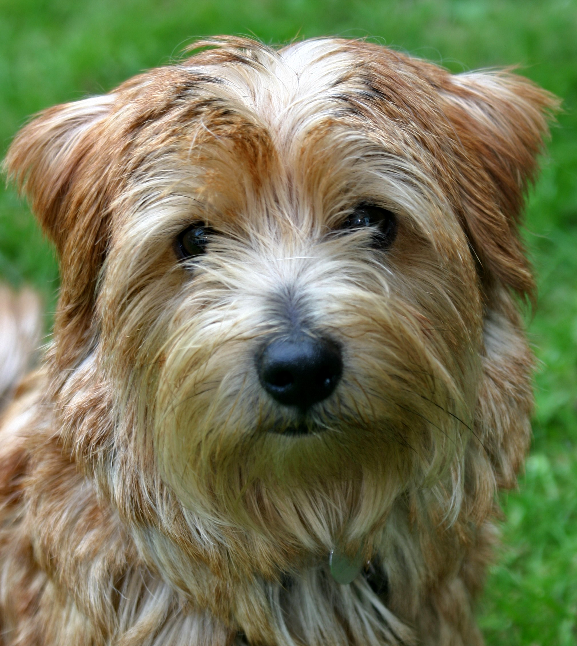 Norfolk Terrier